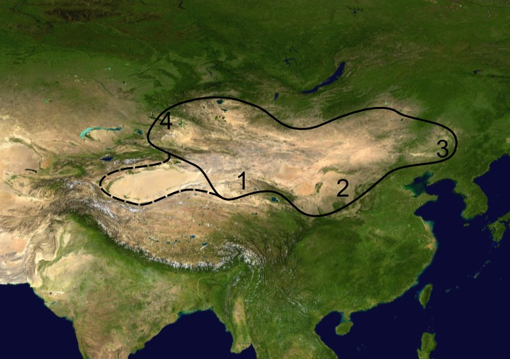 distribution of Phodopus roborovskii with type localities